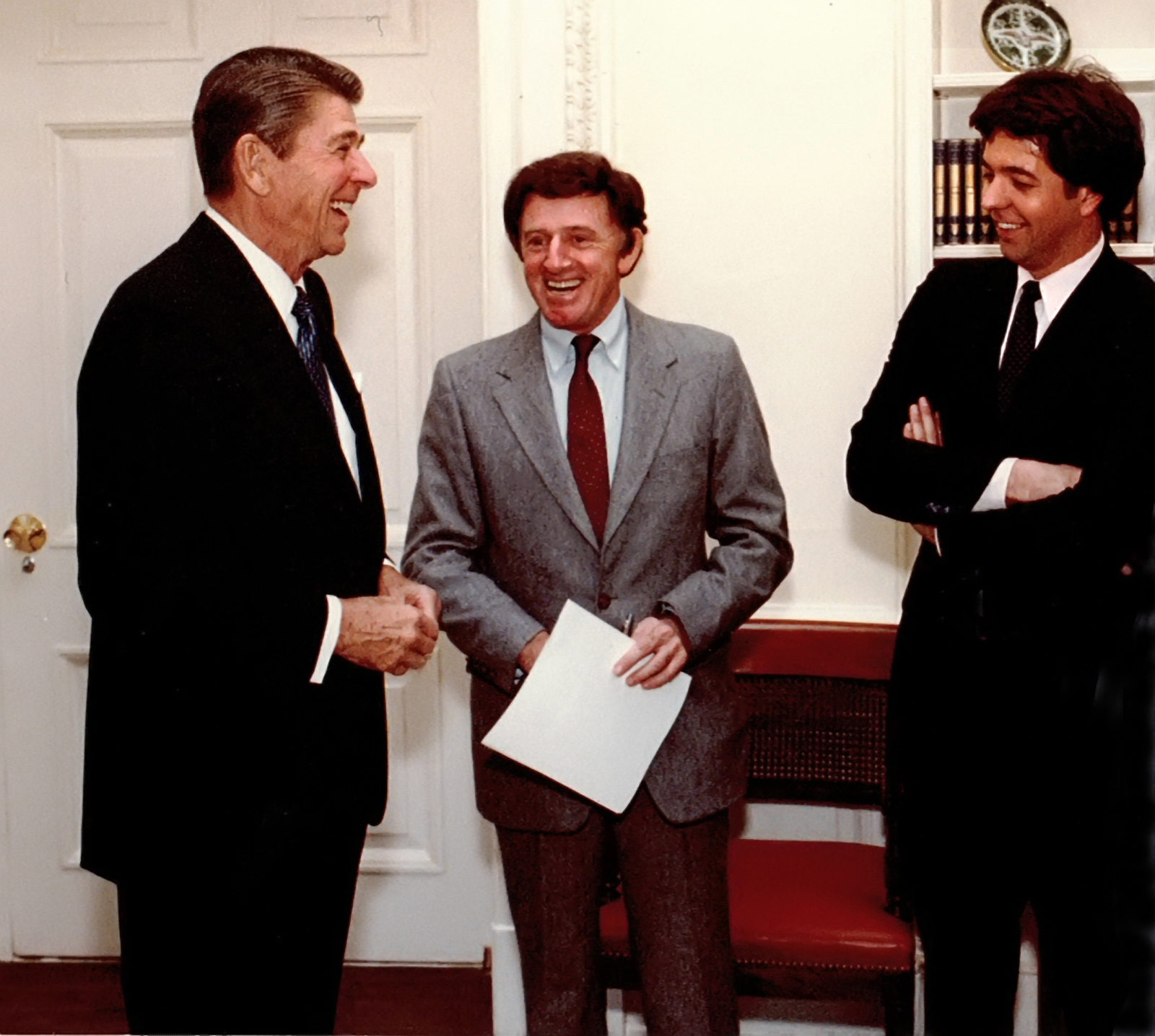 President Ronald Reagan, Congressman Gene Atkinson, Robb Austin, Atkinson Chief of Staff